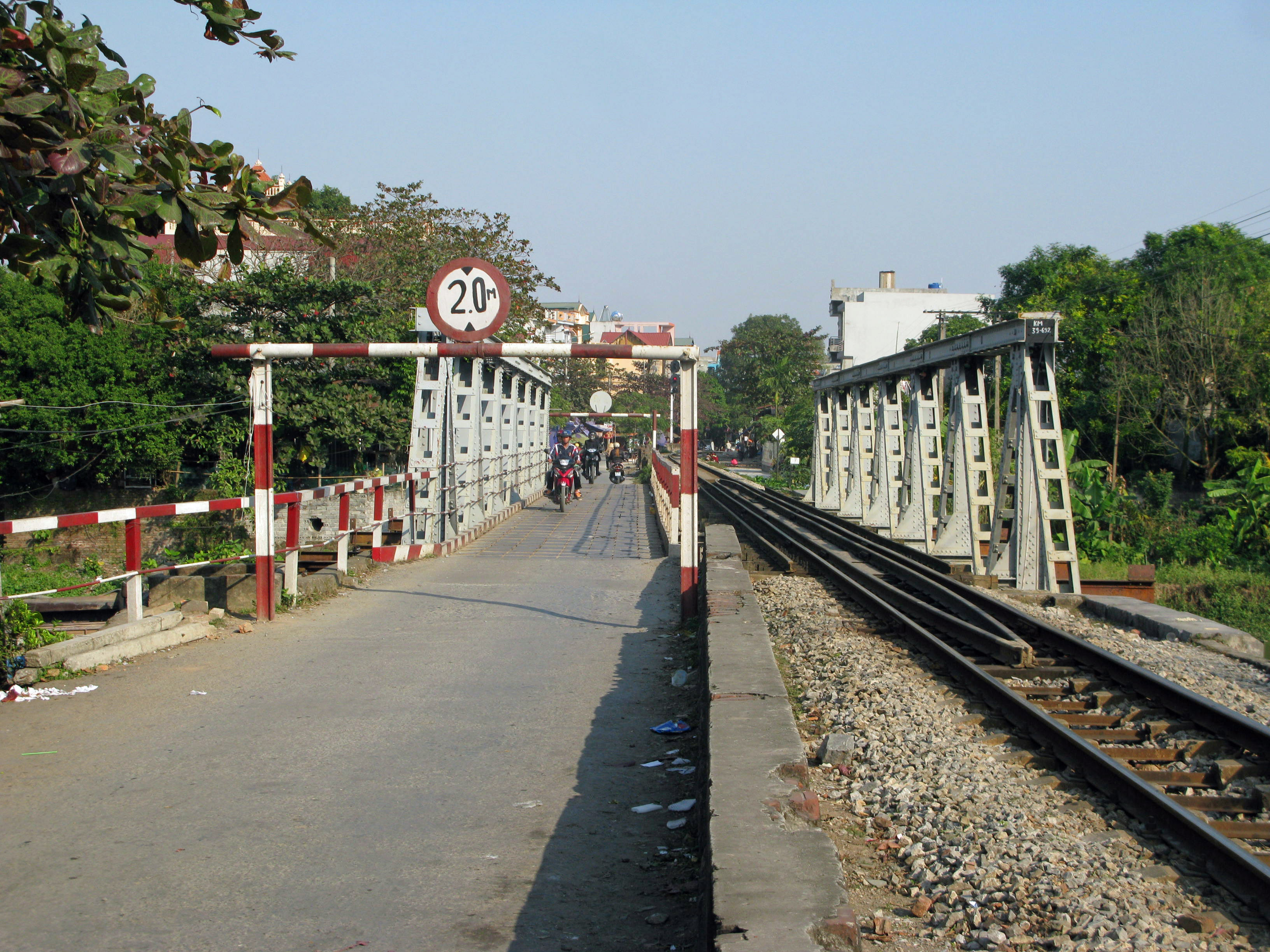 Railway Bridge west of Cam Giang Station